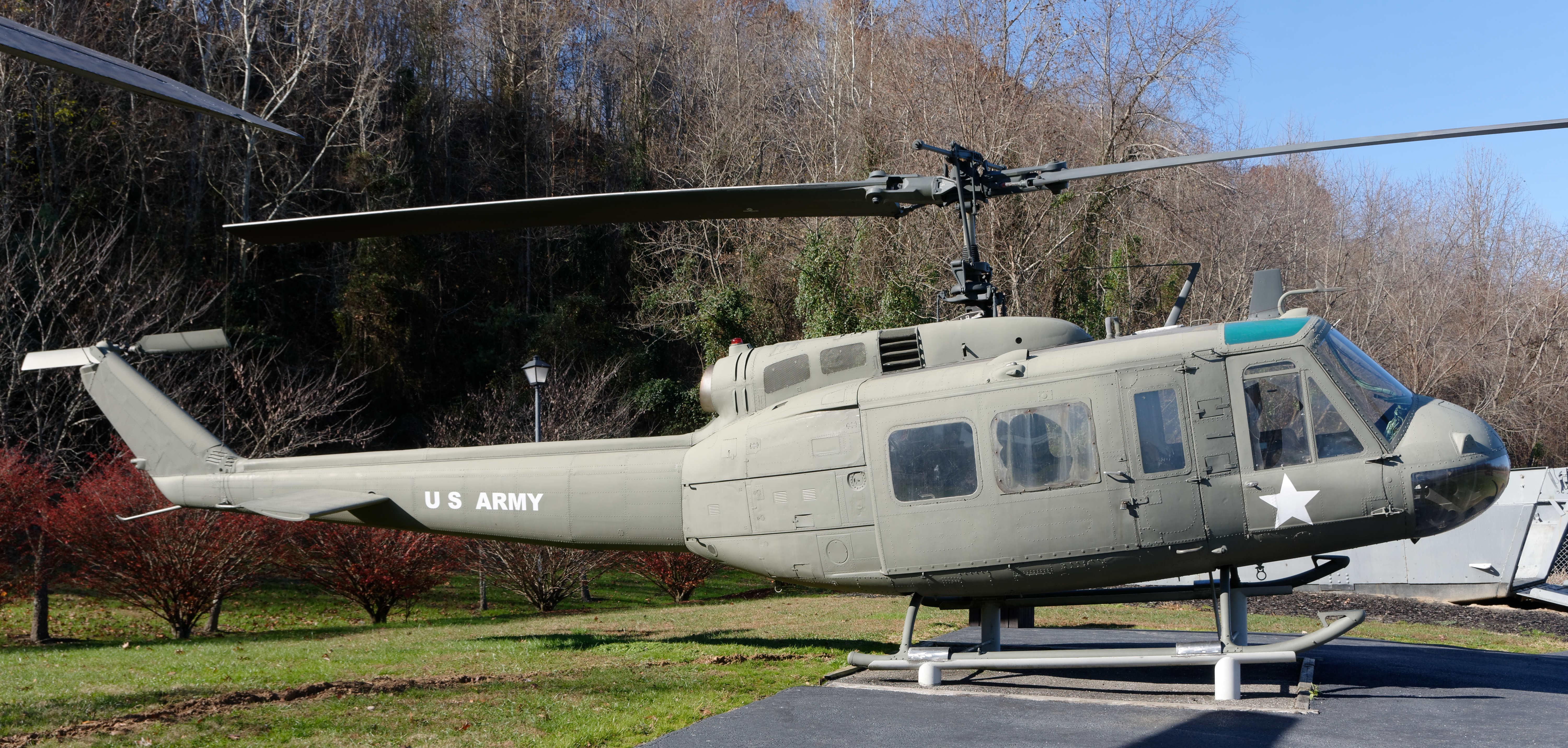 Huey UH-1 helicopter in Greenup, Kentucky, U.S.